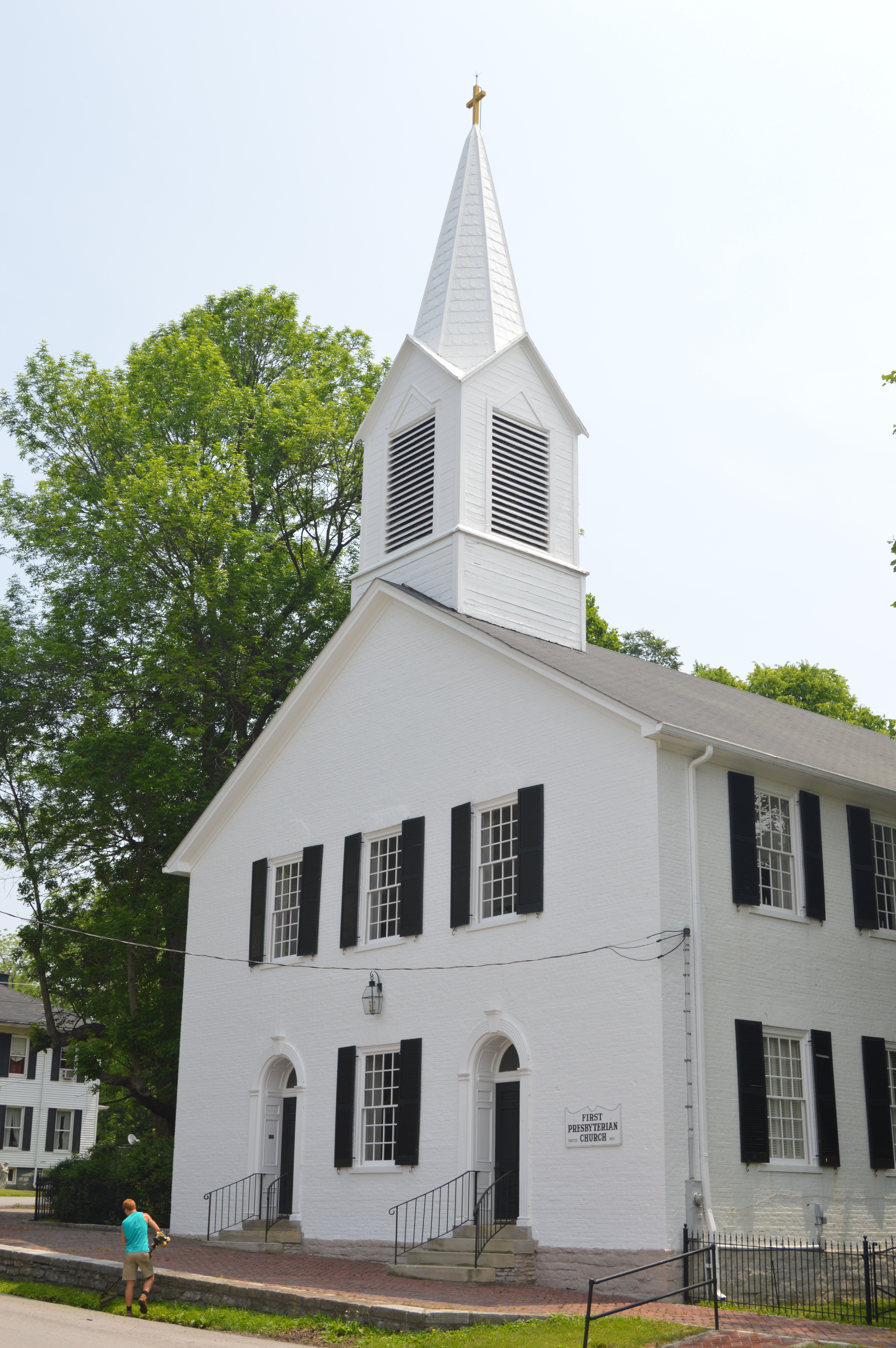 Front of the First Presbyterian Church of Flemingsburg, located at 204 W. Main Street in Flemingsburg, Kentucky, United States. Established in 1795, the congregation built this building in 1819; it is listed on the National Register of Historic Places, and it is part of a Register-listed historic district, the Flemingsburg Historic District.